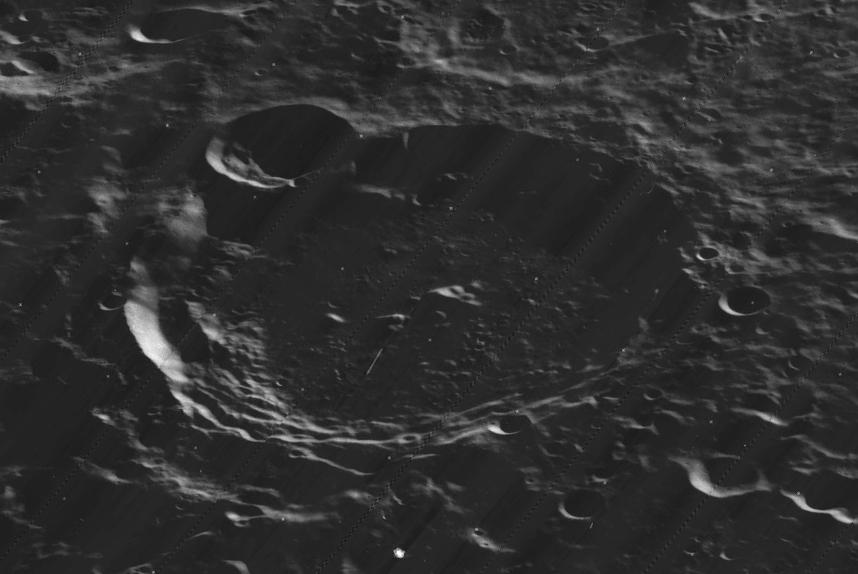 Oblique view of Fizeau, on the far side of the moon, facing west.